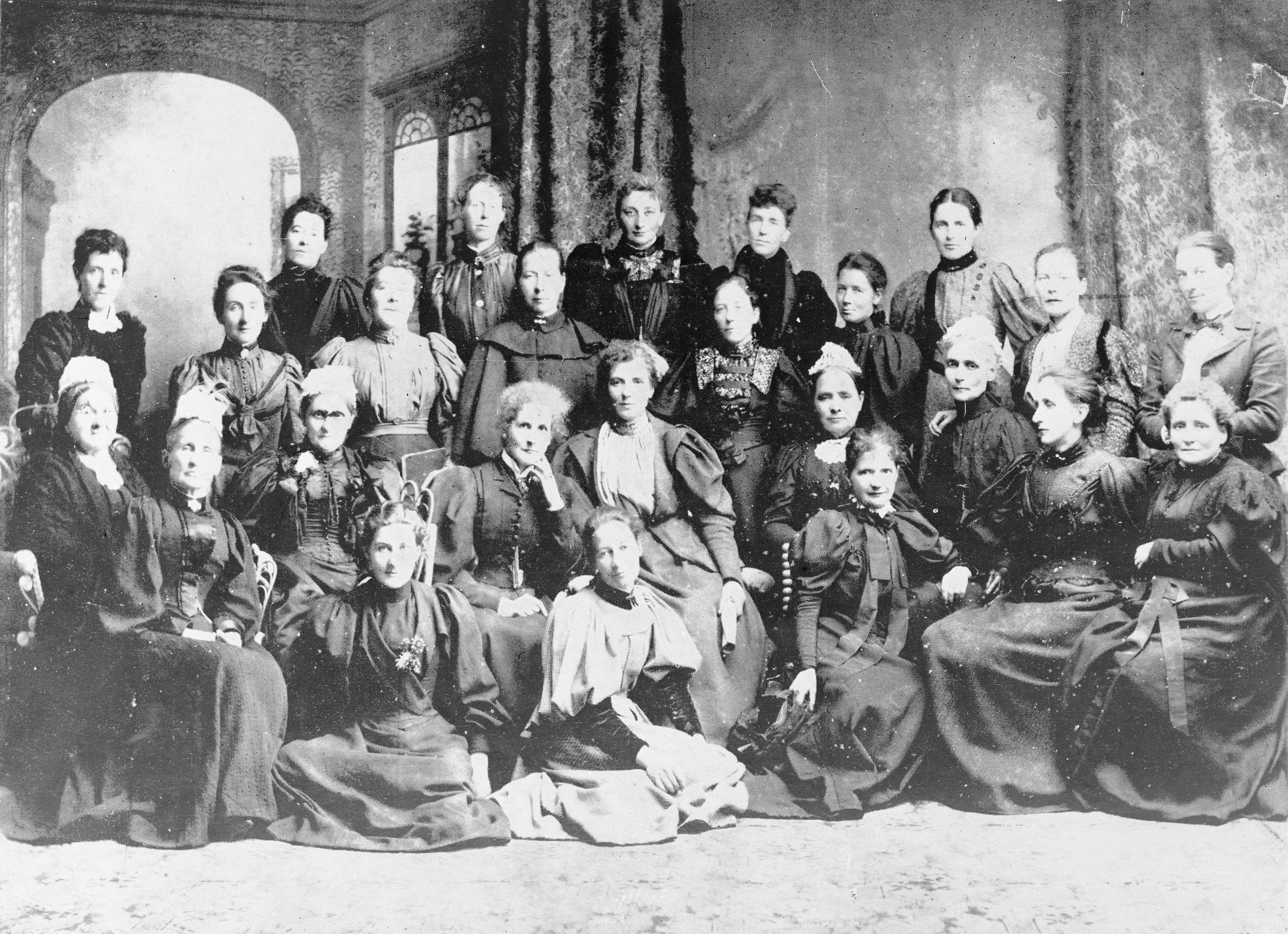 National Council of Women, Christchurch, 1896. From left, standing: Mrs A Ansell (Dunedin), Mrs Henry Smith (Christchurch), Miss A E Hookham (Christchurch), Mrs G Ross (Christchurch), Miss Jessie Mackay (Christchurch), Mrs Isherwood (Christchurch), Mrs Black (Christchurch), Mrs Widdowson (Christchurch), Miss F Garstin (Christchurch), Mrs Wallis (Christchurch), Mrs Darling (Christchurch), Mrs J M Williamson (Wanganui), Mrs Wilson (Christchurch). Seated: Mrs G J Smith (Christchurch), Mrs A Daldy (Auckland), Mrs Hatton (Dunedin; Vice-president), Lady Anna Stout (Wellington, Vice-president), Mrs Kate Sheppard (Christchurch; president), Mrs A J Schnackenberg (Auckland; Vice-president), Mrs W Sievwight (Gisborne), Mrs M A Tasker (Wellington), Mrs D Izett (Christchurch, secretary). Seated on floor: Mrs Clara Alley (Malvern), Mrs A Wells (Christchurch), Miss Bain (Christchurch). Photographer unidentified.